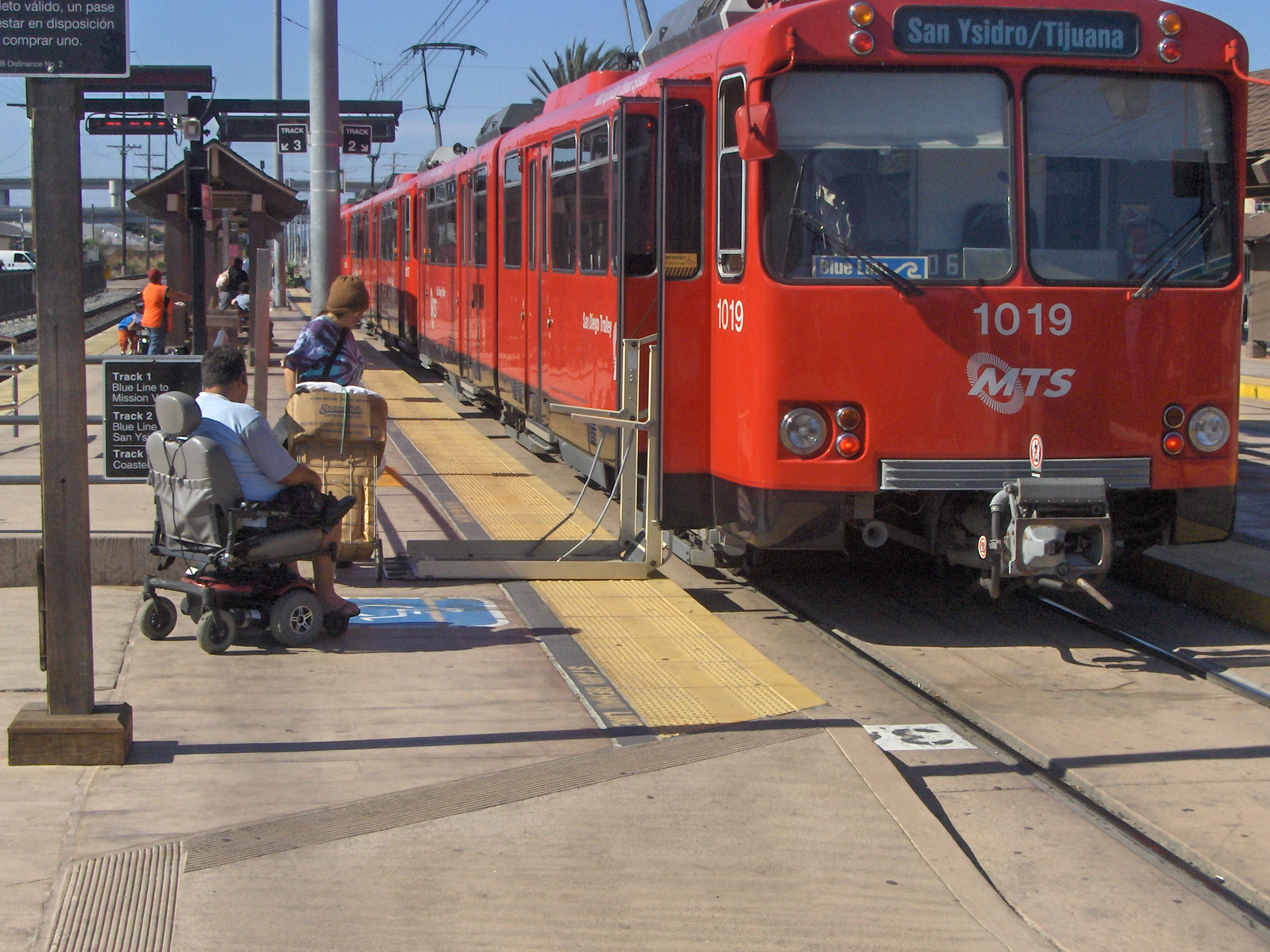 San Diego, California, Tramway with handicapped elevator ready at Old Town station